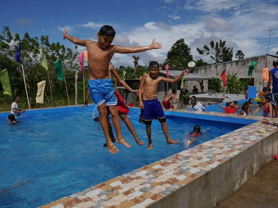 Villa Trenta Eddie WoW Pool Farm Resort